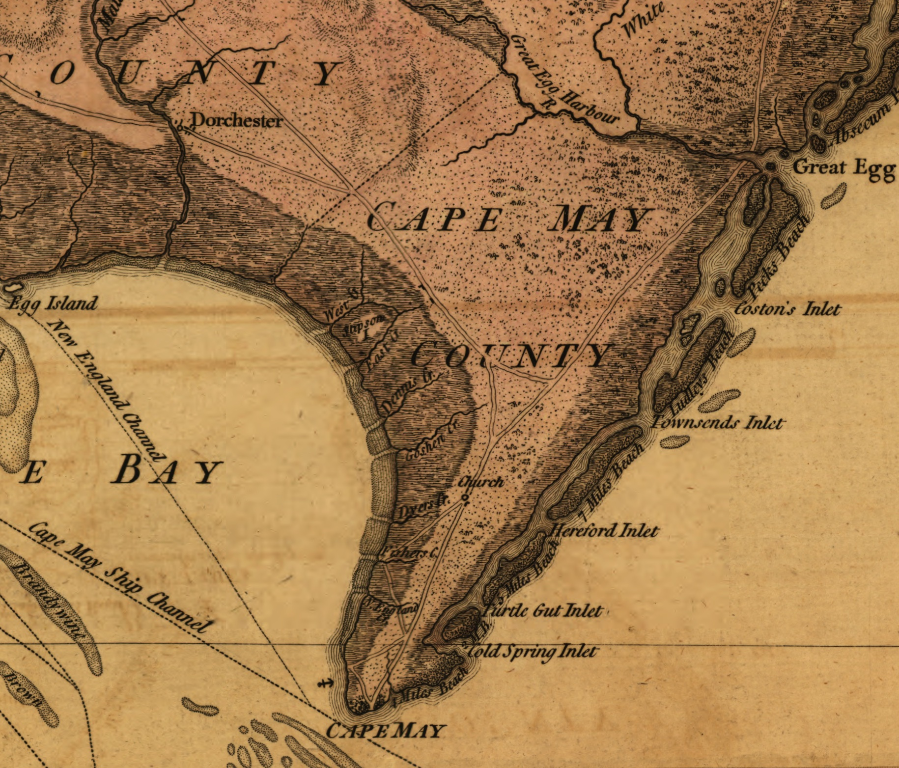 Detail of a 1777 map depicting Cape May County, New Jersey. The area shown was the scene of military activity, the Battle of Turtle Gut Inlet, early in the American Revolutionary War.